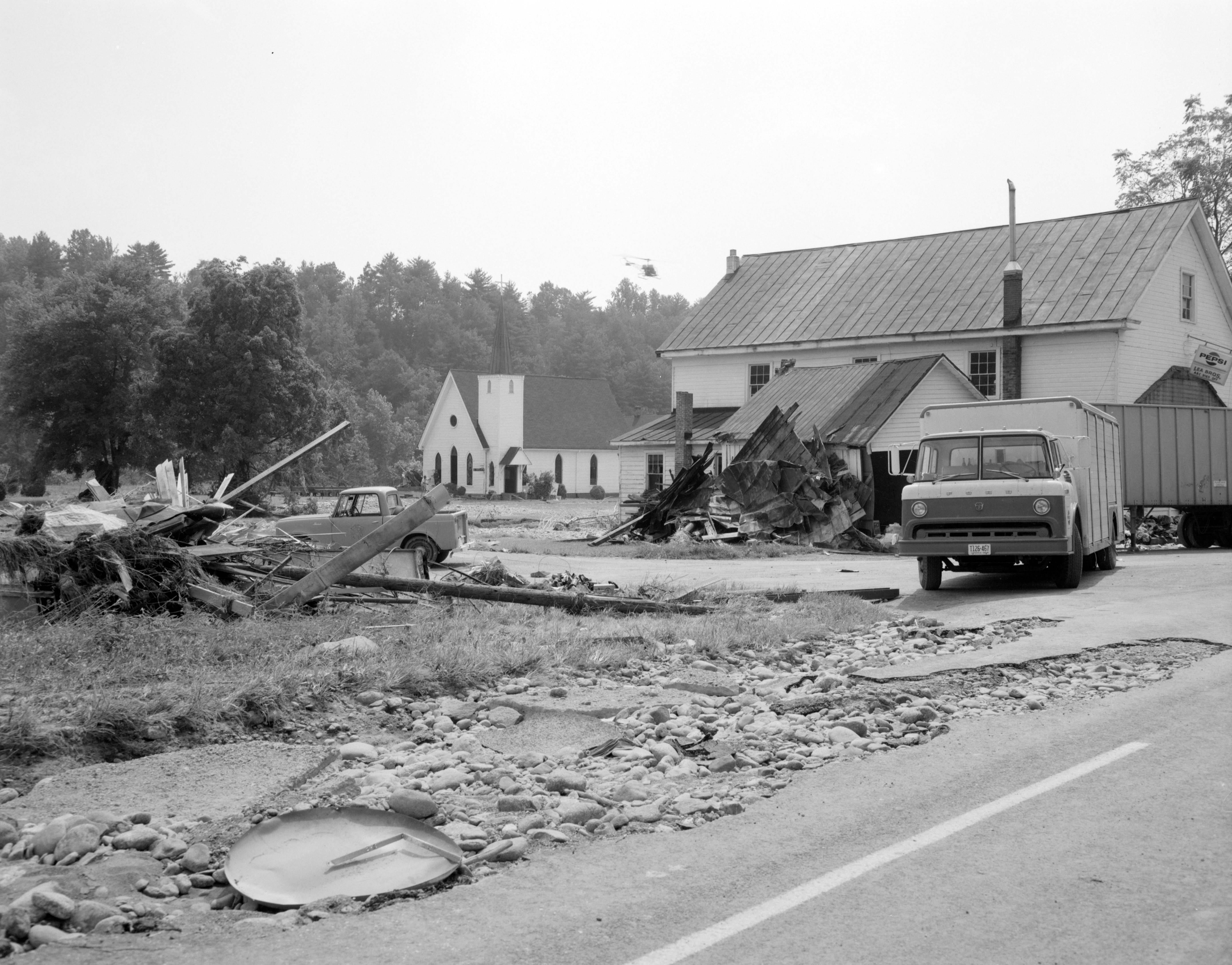 Rt. 56 in Massies Mill, one of the communities hit hardest by Hurricane Camille. Located in Nelson County near the Tye River. No. 69-2197, Virginia Governor's Negative Collection, Library of Virginia.